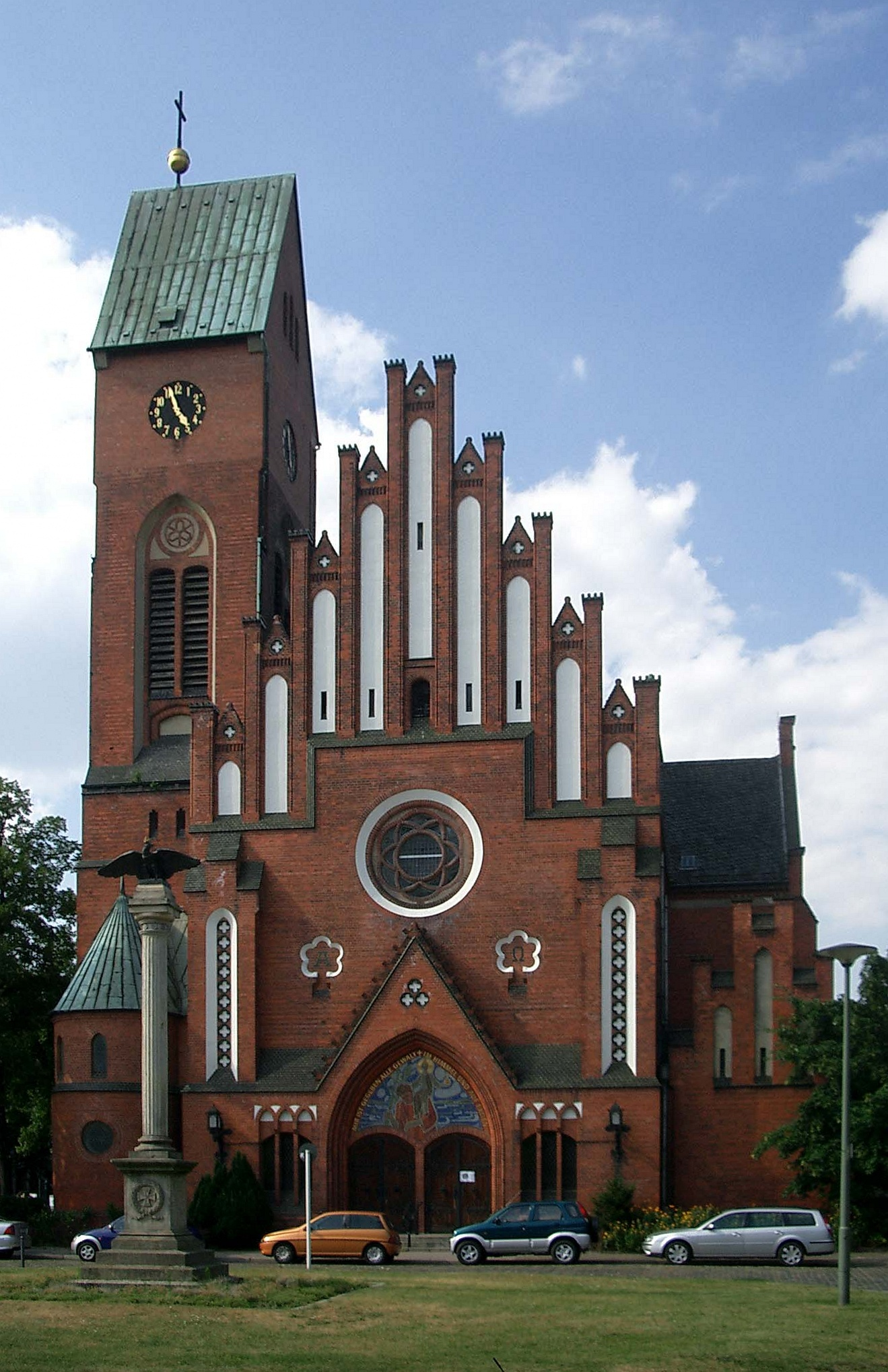 Berlin-Friedrichshagen - Christophoruskirche, Südfassade zum Marktplatz mit dem 1879 errichteten Denkmal zur Erinnerung an die Gefallenen des Deutsch-Französischen Krieges von 1870/71.